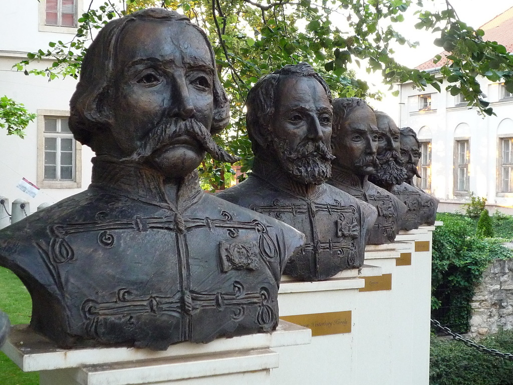 Museum of Military History, Budapest, ex Nádor-barracks This is a photo of a monument in Hungary. Identifier: 110